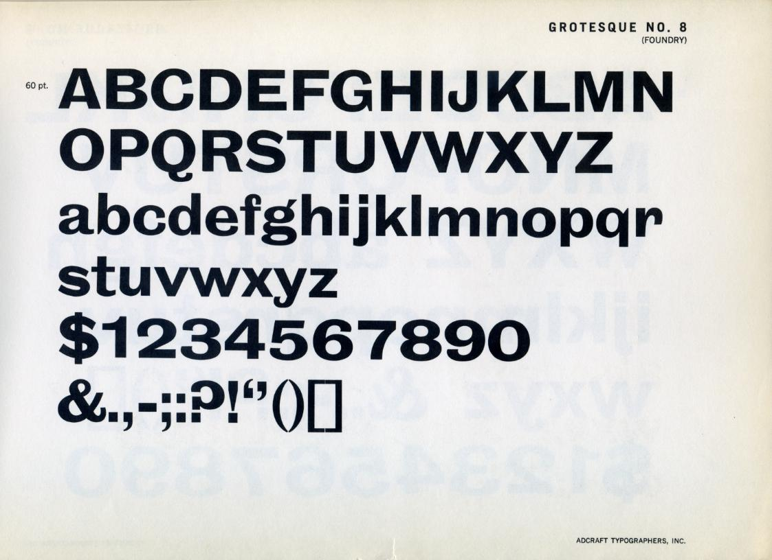 From